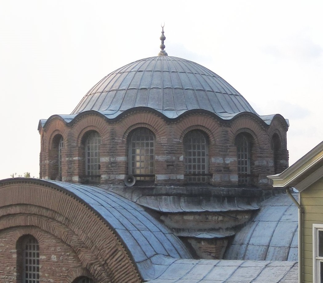 Dome exterior of the Kalenderhane Mosque, former Church of Theotokos Kyriotissa, viewed from the Southeast. Fatih, Istanbul, Turkey.